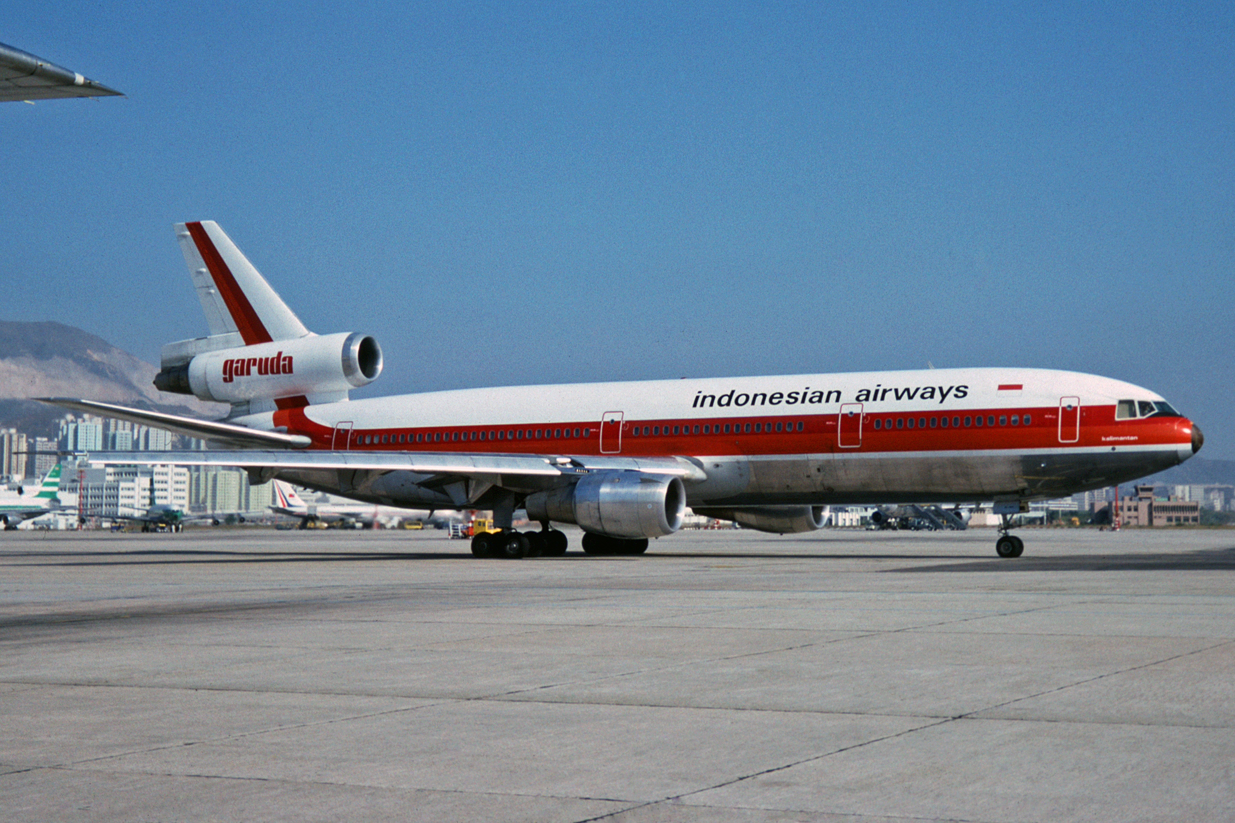 "Kalimantan" at Kai Tak. This aircraft crashed on takeoff at Fukuoka Airport on 13 June 1996 as Flight 865.